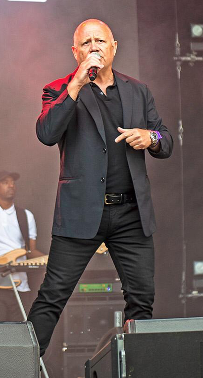 Belouis Some, Belfast 2019